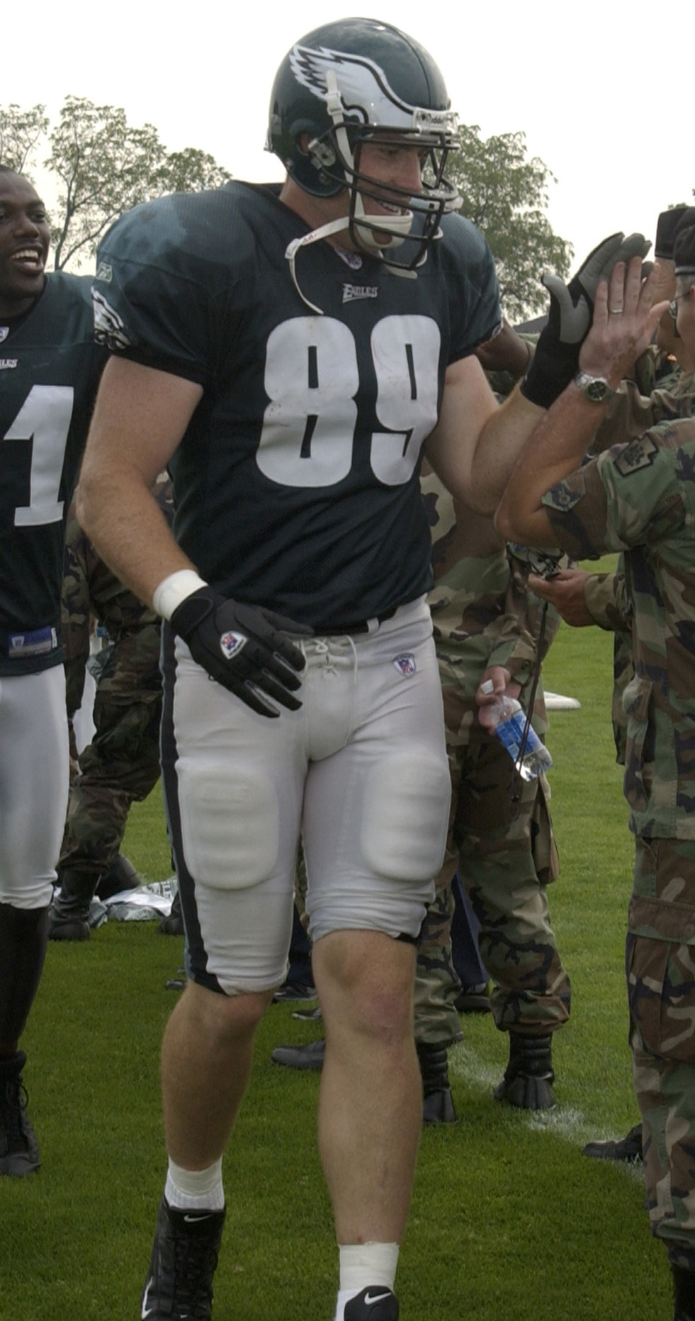 BETHLEHEM, Pa. -- Philadelphia Eagles Tight End Chad Lewis, Wide Receiver Terrell Owens, and Quarterback Donovan McNabb, "high five" a line of military members after practice at the Eagles training camp located at Lehigh University Aug. 10. Military members were invited to the camp for Military Appreciation Day. (U.S. Air Force photo by Denise Gould)